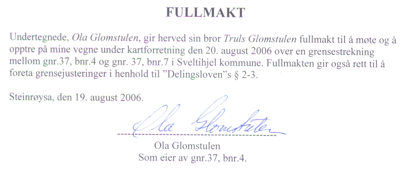 "power of attorney ", Norwegian.